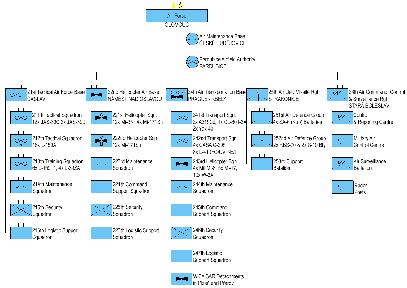 Structure of the Czech Armed Forces Air Force.